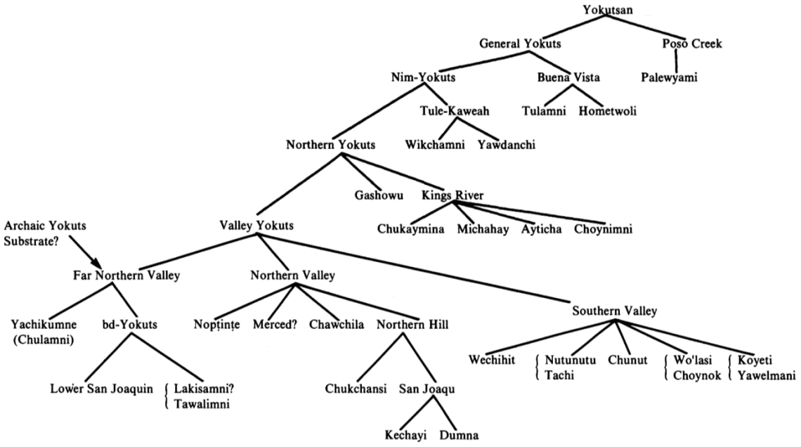 Yokutsan family tree from Whistler & Golla (1986: 320-321). Bibliography Whistler, Kenneth; & Golla, Victor. (1986). Proto-Yokuts reconsidered. International Journal of American Linguistics, 52, 317-358.